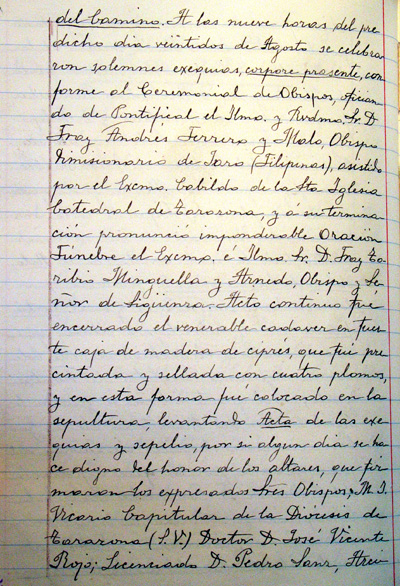 High resolution image of the Register of Burial of St. Ezekiel Moreno, Bishop of Pasto, Colombia.